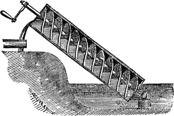 Archimedes' screw. Public domain, from Chambers's Encyclopedia (Philadelphia: J. B. Lippincott Company, 1875). Added to illustrate article Archimedes.